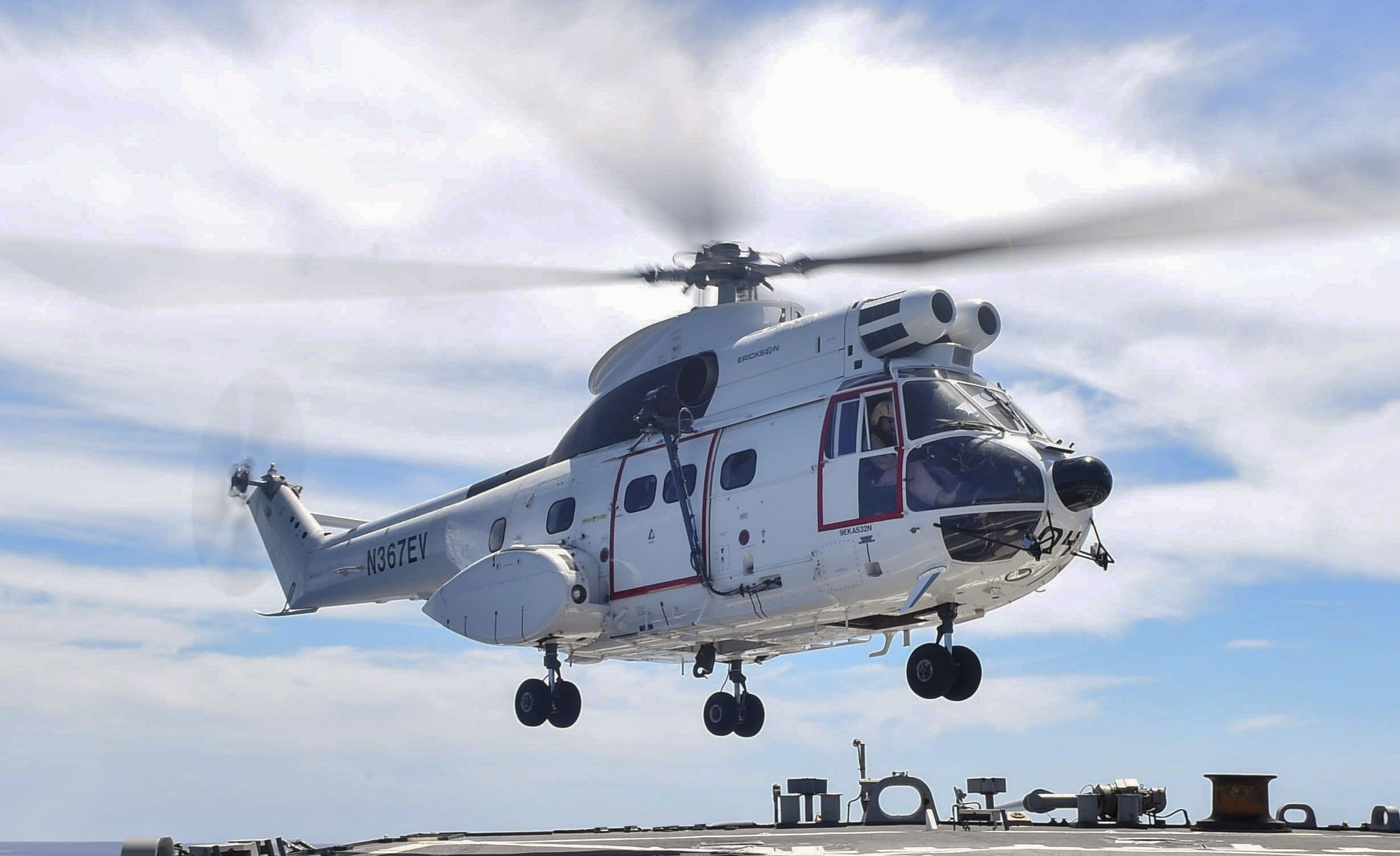 170926-N-RB168-203 WATERS NEAR GUAM (Sept. 26, 2017) The flight deck crew takes cover as an SA-330J Puma helicopter, assigned to USNS Amelia Earhart (T-AKE 6) lands on the flight deck of the Arleigh Burke-class guided-missile destroyer USS Benfold (DDG 65). Benfold is on patrol in the U.S. 7th Fleet area of operations in support of security and stability in the Indo-Asia-Pacific. (U.S. Navy Photo by Mass Communication Specialist 1st Class Benjamin Dobbs/Released)